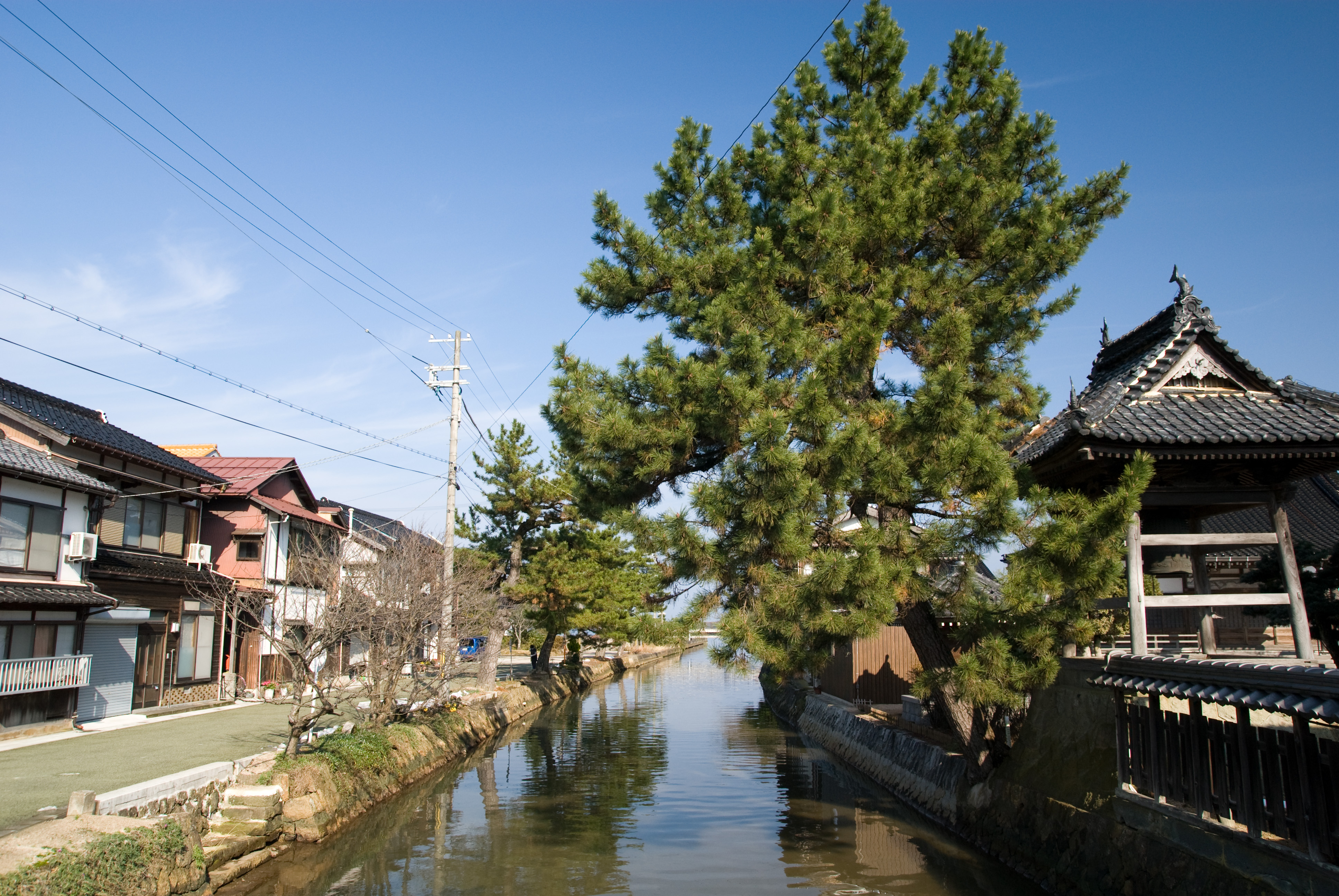 Kumitanigawa in Kumihama-cho Kyotango City Kyoto prefecture, Japan.